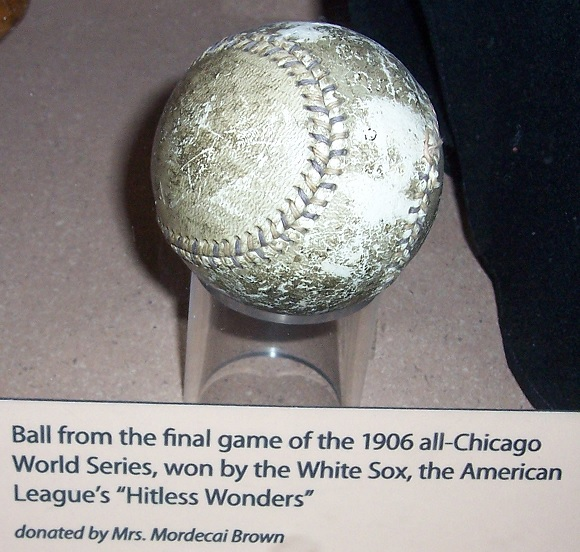 A ball from game 6 of the 1906 World Series on display at the National Baseball Hall of Fame and Museum.